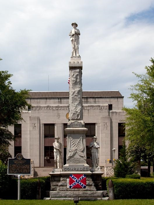 Title: Confederate statue in Jasper, Alabama Notes: Title, date, subject note, and keywords provided by the photographer.; Gift; George F. Landegger; 2010; (DLC/PP-2010:090).; Forms part of the George F. Landegger Collection of Alabama Photographs in Carol M. Highsmith's America Project in the Carol M. Highsmith Archive.; Credit line: The George F. Landegger Collection of Alabama Photographs in Carol M. Highsmith's America, Library of Congress, Prints and Photographs Division.